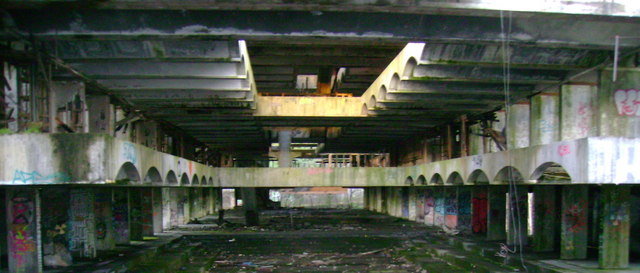 Interior of St Peter's Seminary This is the interior of the main building as viewed from the altar.